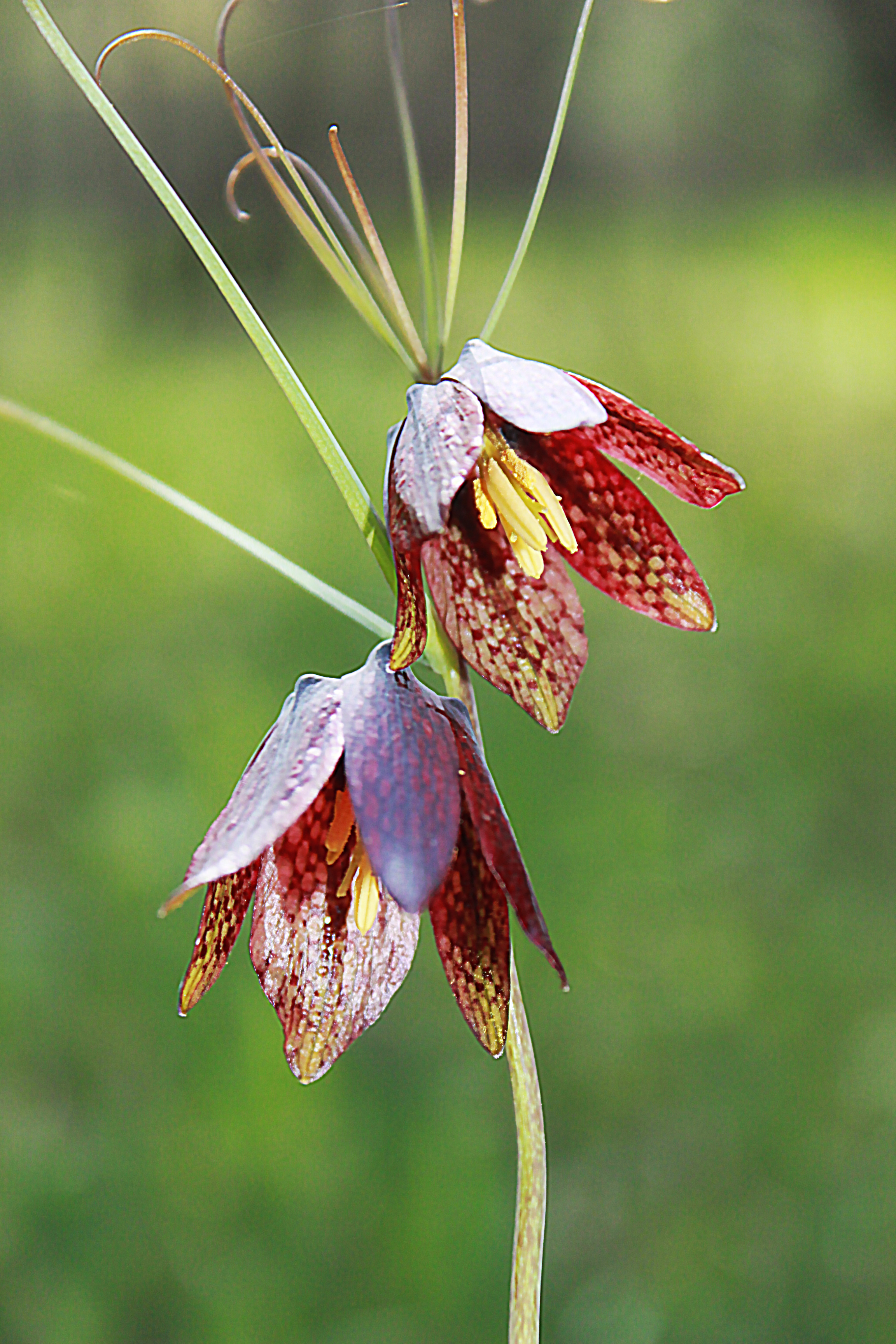 Fritillaria meleagris is listed in the Red Book of Ukraine and Red books of many subjects of the Russian Federation. Fritillaria ruthenica (укр. - Рябчик руський, рос. - Рябчик русский) - включений до "Червоної книги України" та декількох червоних книг суб’єктів Російської Федерації.